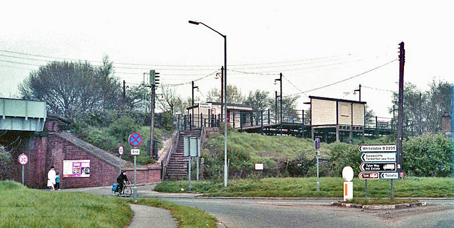 Chestfield & Swalecliffe station. View NE, towards Margate and Ramsgate (right), Whitstable, Chatham and London (left: ex-SE&C Kent Coast main line. The scene is from the main A299, before the by-pass was built.